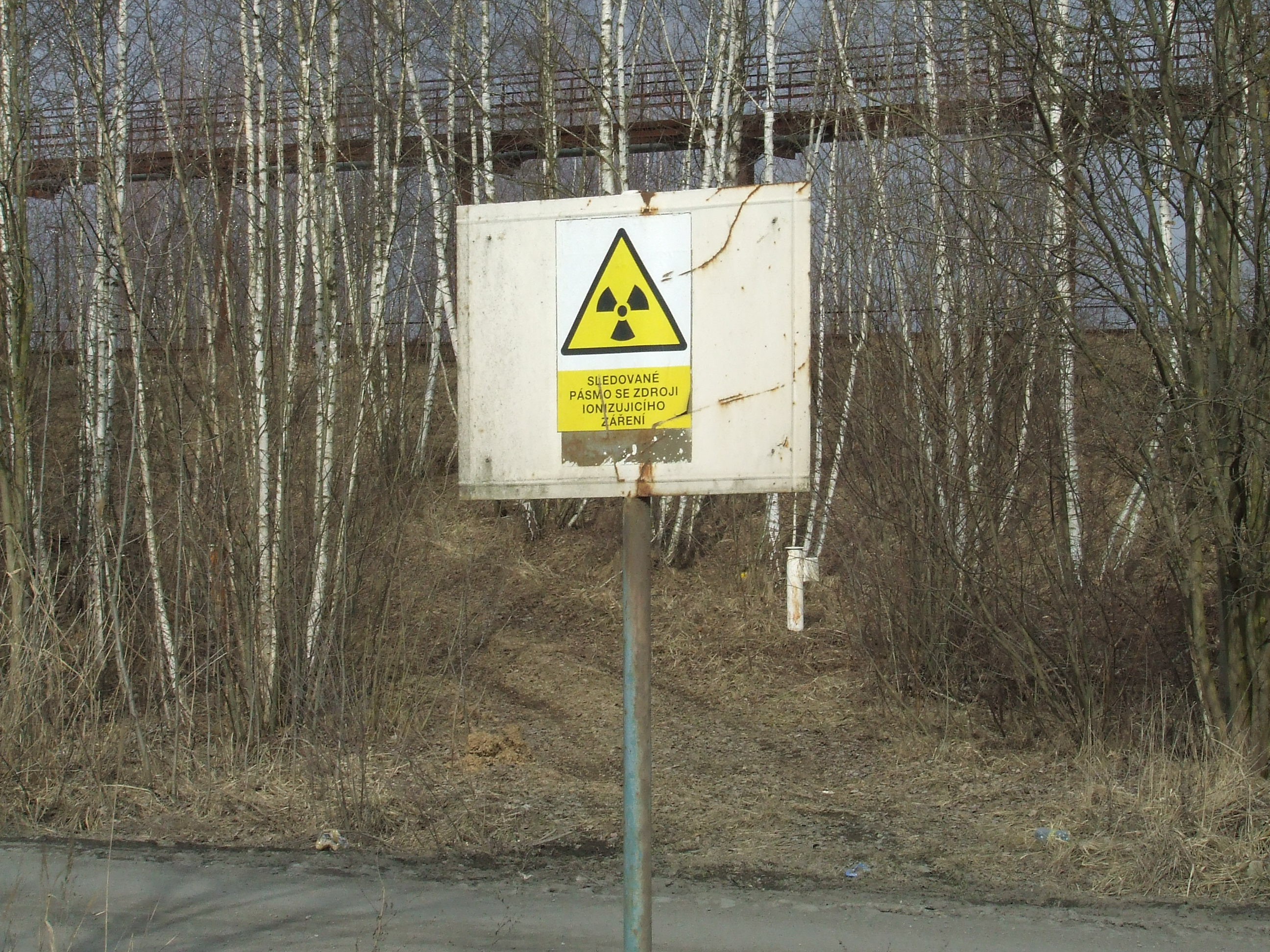 Radioation warning at MAPE